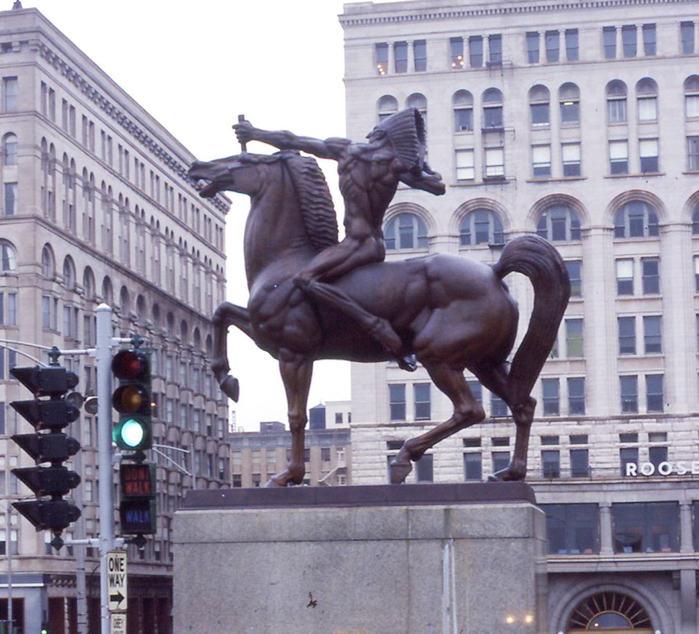 One of Ivan Mestrovic's Indians in Chicago.